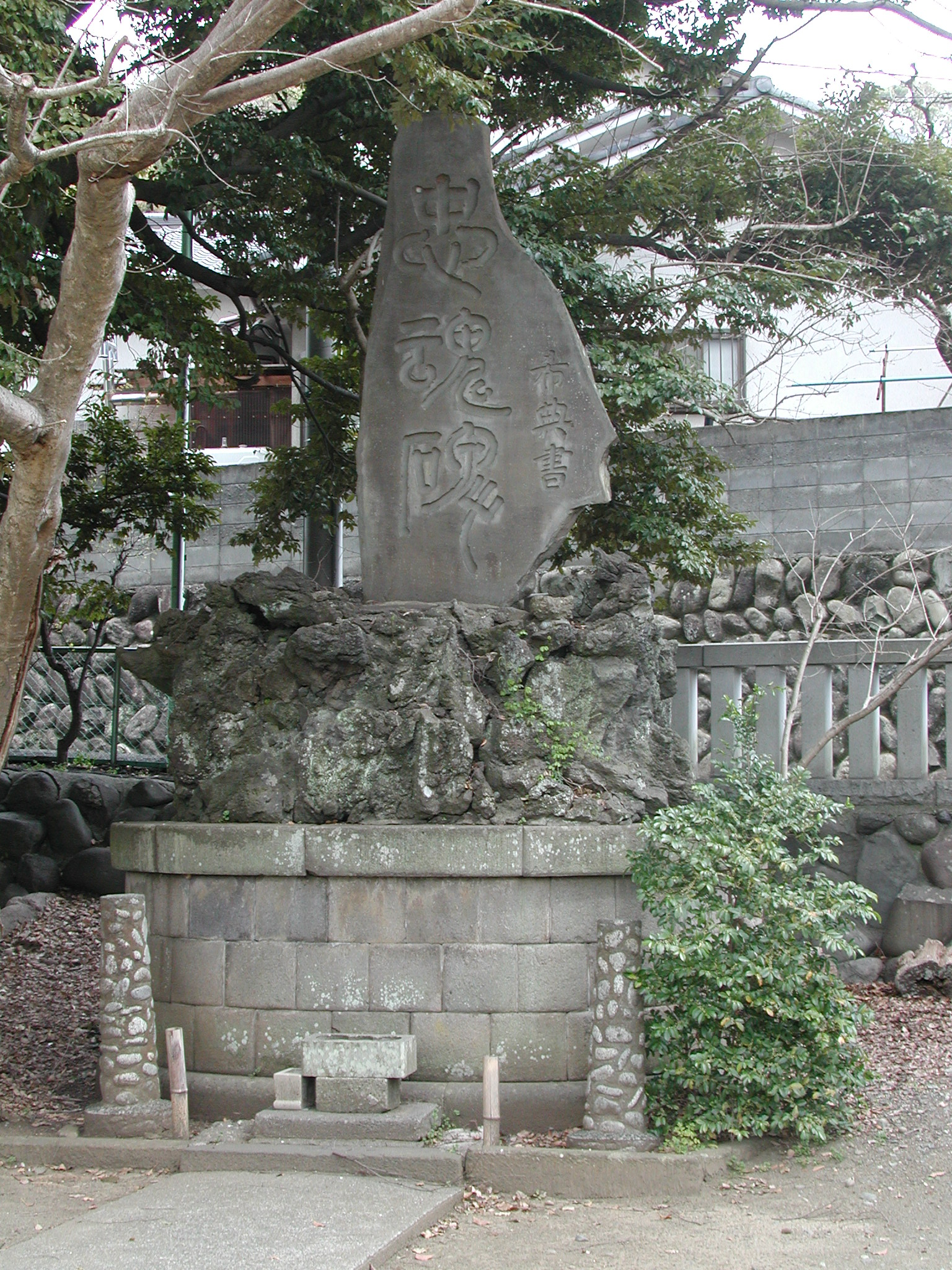 Chuukonhi (a monument to the loyal dead) in Sugawara Jinja (Kouzu, Odawara-shi, Kanagawa)